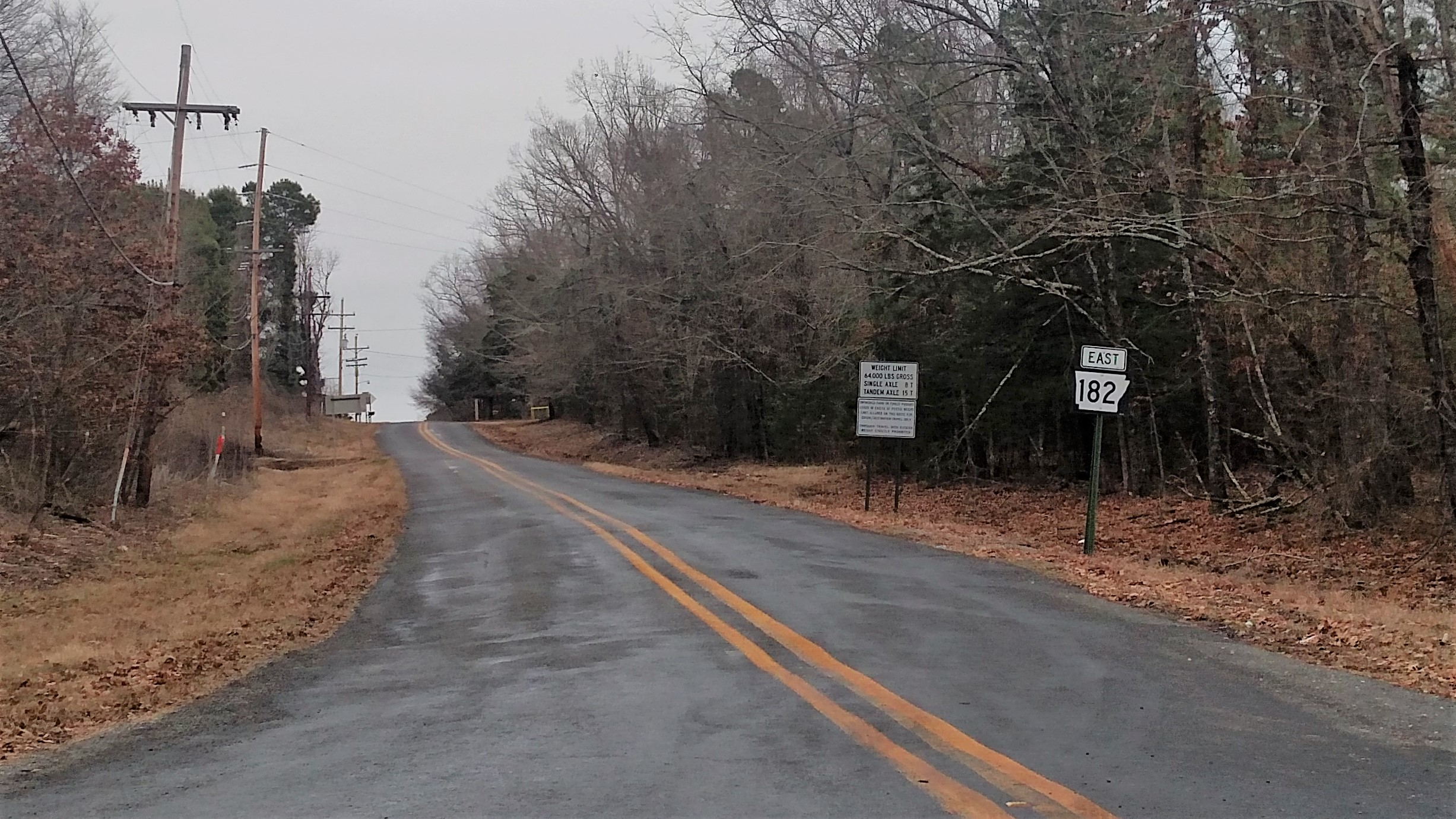 First Highway 182 reassurance marker east of the Highway 51 intersection in Okolona, AR